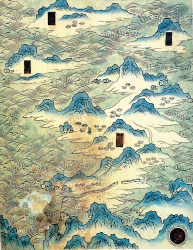 Suncheon Joseon Dynastys national pasture's areas map, painted by Heo mok